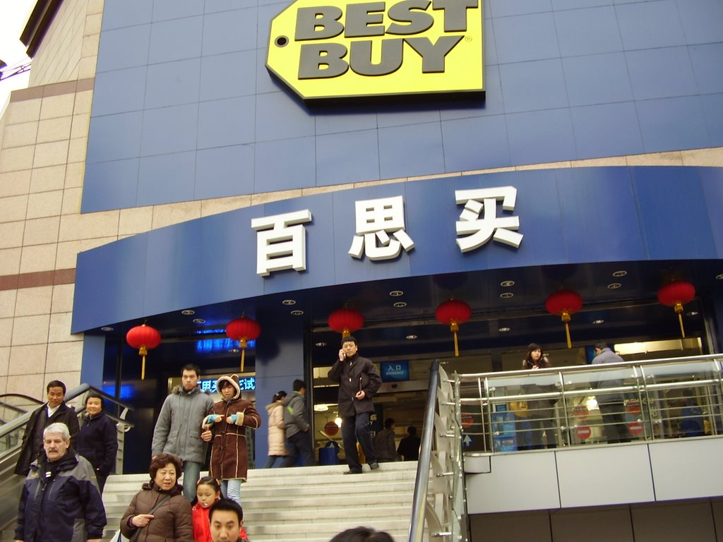 Best Buy Store in Shanghai